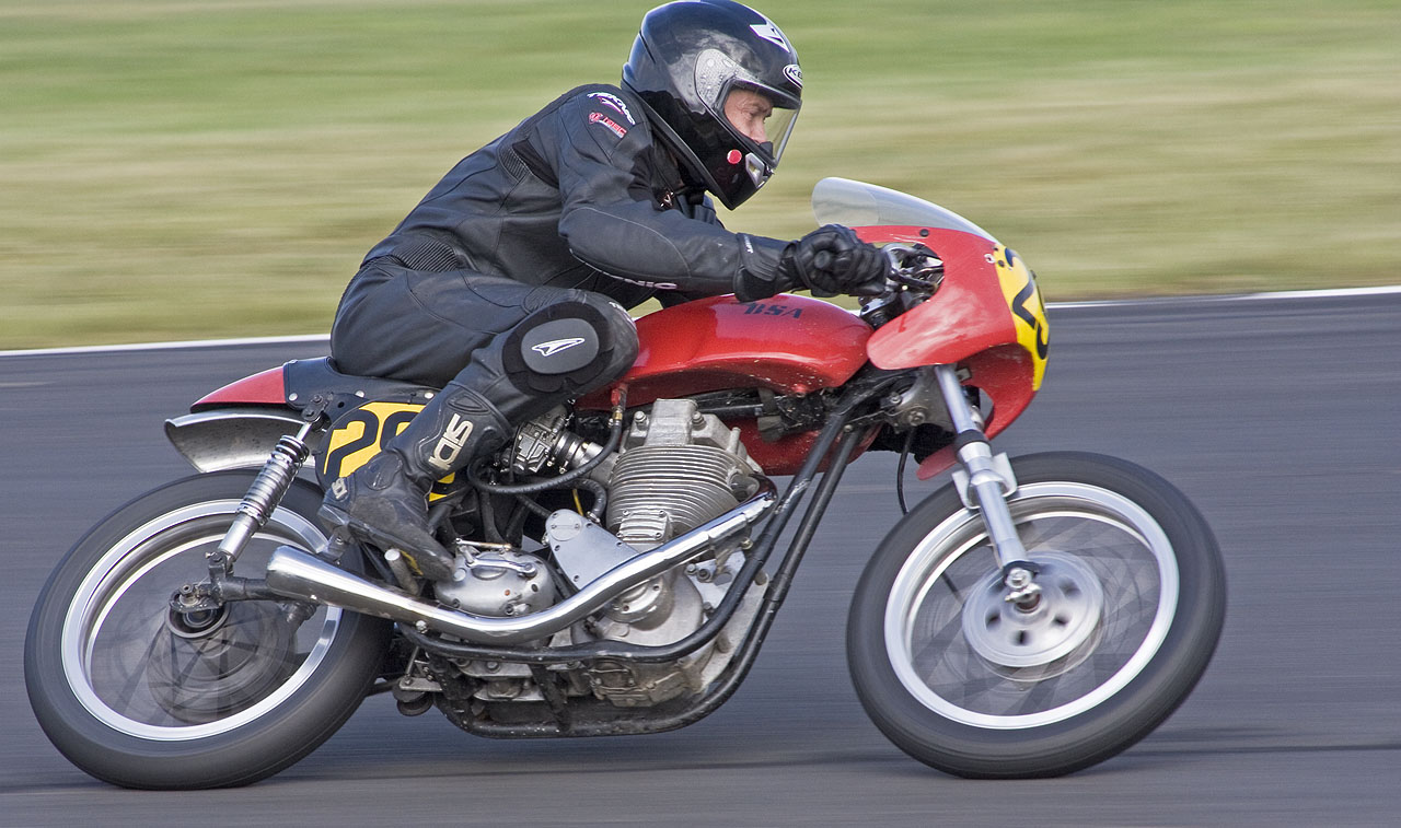 The Barry Sheen Memorial Race Meeting - 23 March 2008, Eastern Creek (NSW, Australia)Bruce Marston: 1956 500cc BSA Goldstar